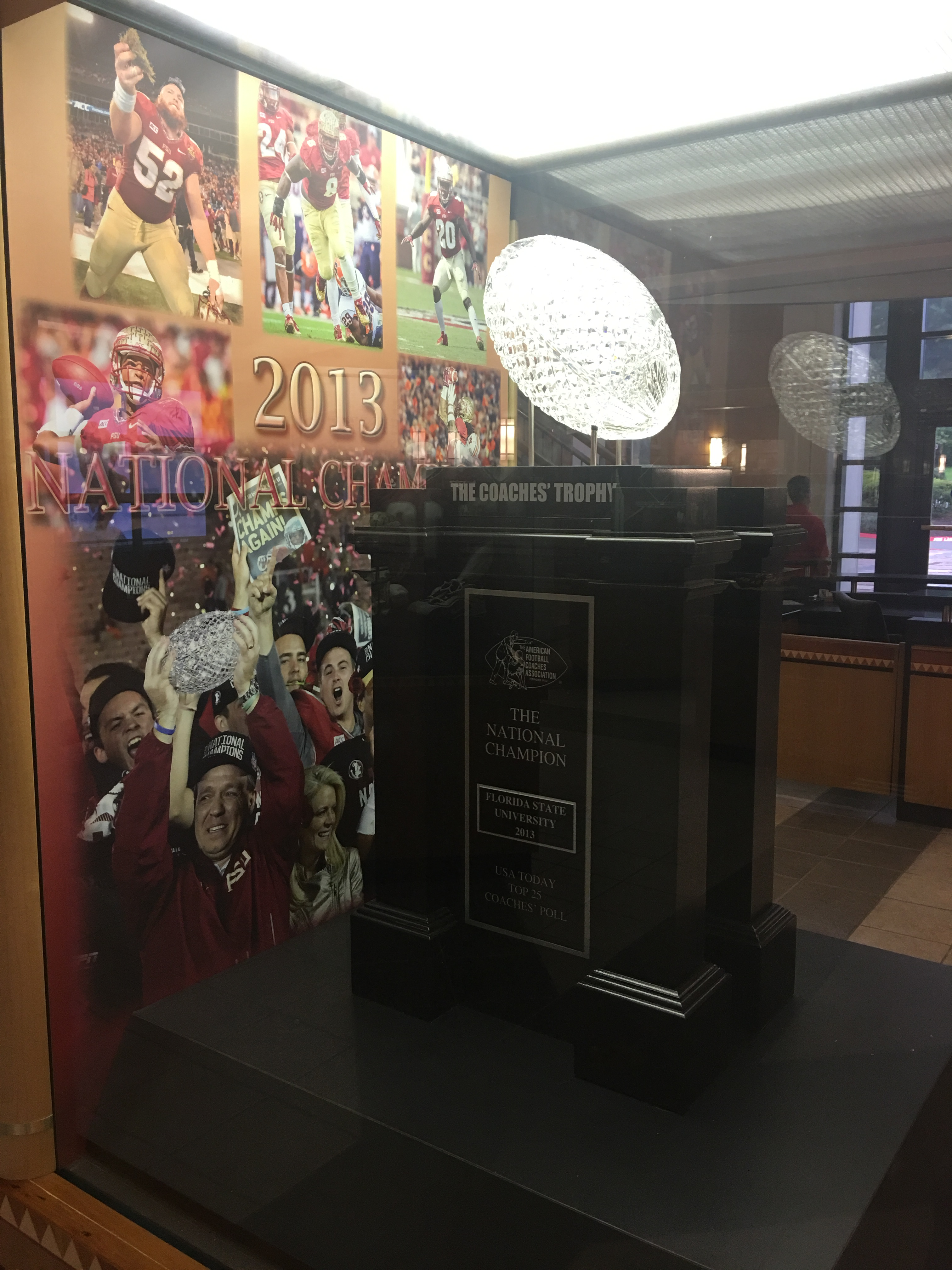 The 2013 College Football National Championship Trophy display at the Moore Athletic Center